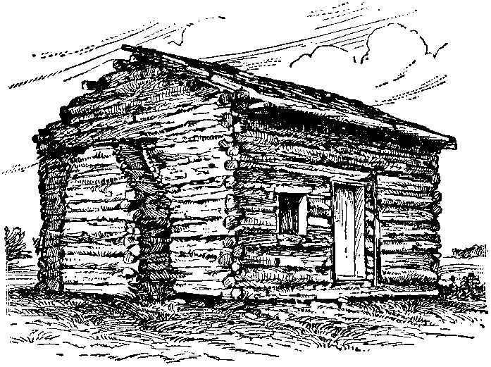 Drawing of log cabin in which President of the United States Abraham Lincoln was born.